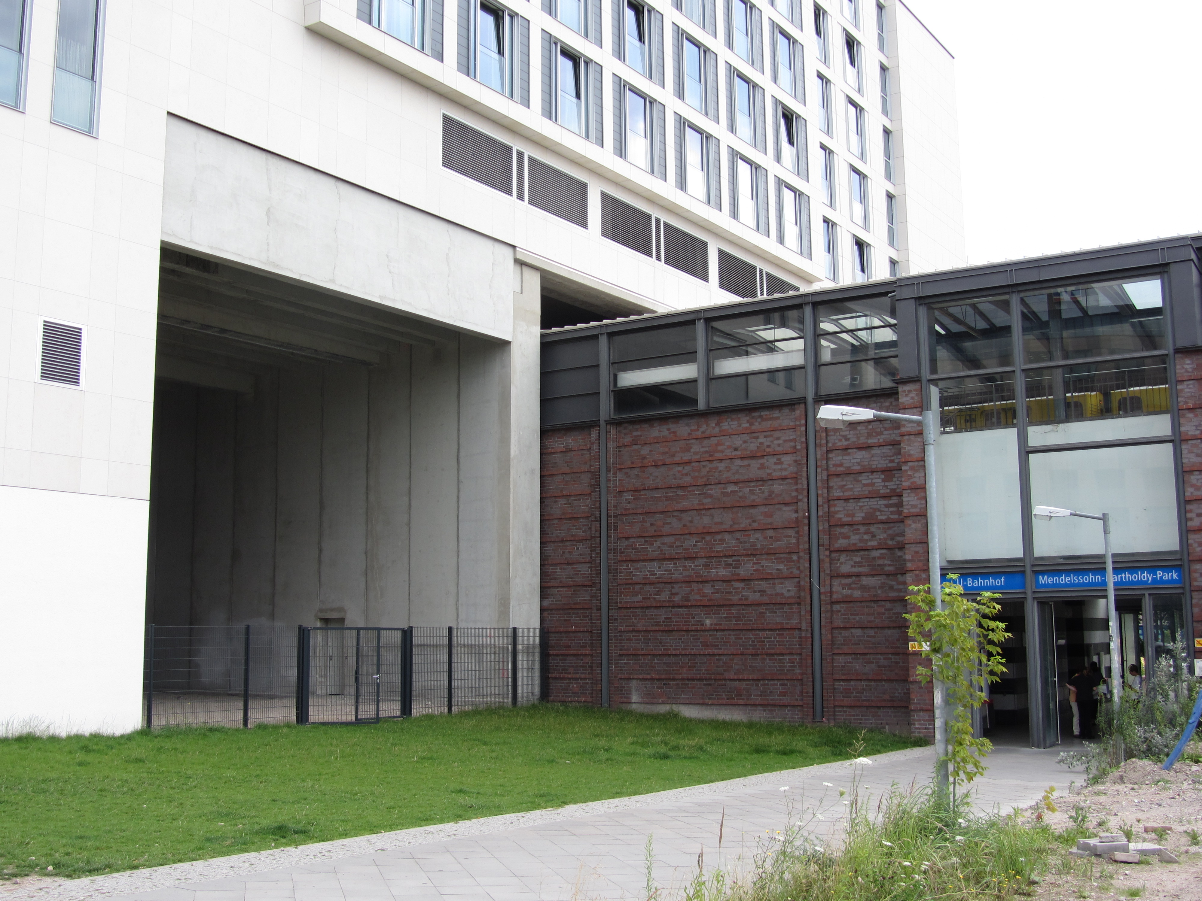 The image shows, next to the entry to the U-Bahn station "Mendelssohn-Bartholdy-Park", the southern exit of the long room under or in the row of new buildings from Potsdamer Platz to Landwehrkanal, left open for a possible new S-Bahn line linking the underground station Potsdamer Platz the above ground lines south of the tunnel mounds from station Anhalter Bahnhof, running in parallel with the U-Bahn line on the viaduct between stations Mendelssohn-Bartholdy-Park and Gleisdreieck